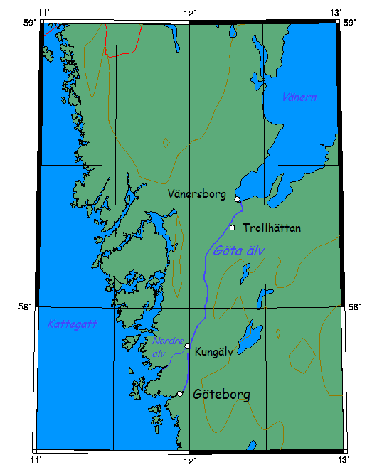 Map of the river Göta älv, Sweden (in the upper left corner is Norway) map made by User:Nordelch with help of